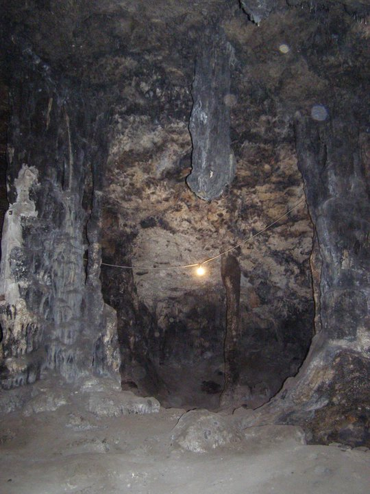 Interior Cueva Santa del Cabriel